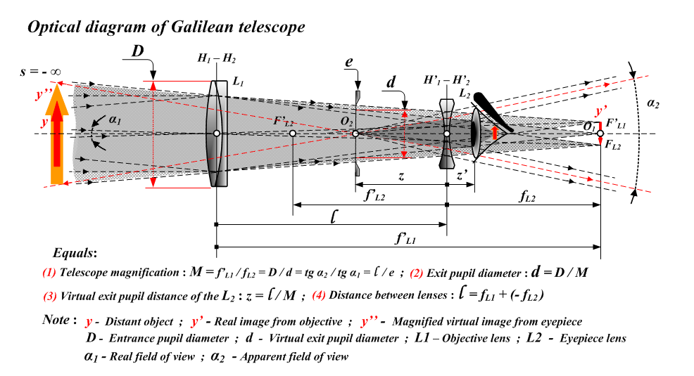 Optical diagram of Galilean telescope.